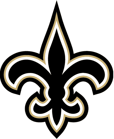 New Orleans Saints' Fleur-de-lis logo used since 2000. Ineligible for copyright.